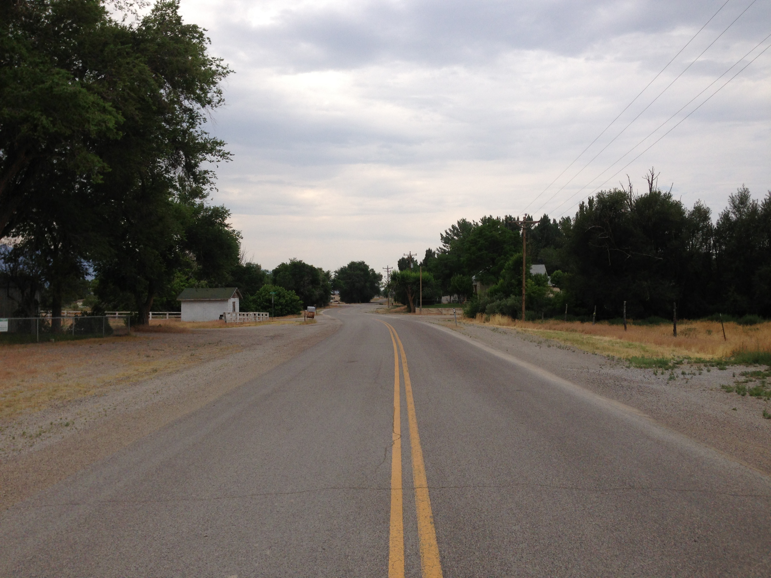 View south along Nevada State Route 895 about 0.7 miles north of the south end in Preston, Nevada